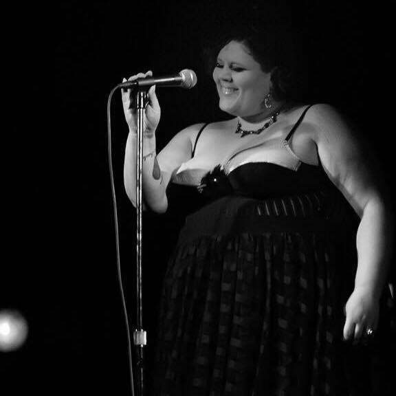 Priscilla Lee Presson Performing with Effies Club Follies at the Fabulous 40 Watt in June of 2018